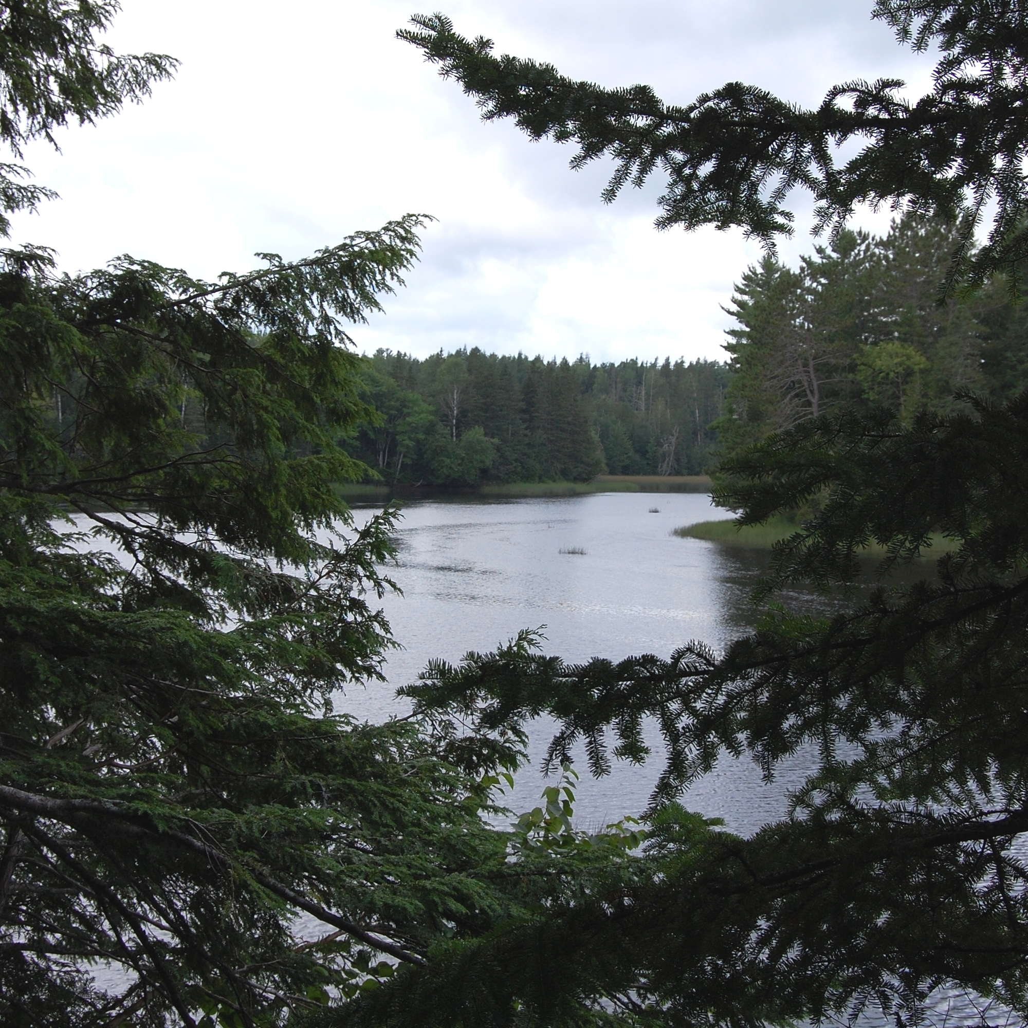 View of the Molus River in Kent County NB